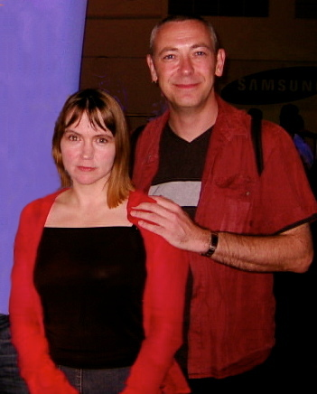 Violet Berlin and Gareth Jones at a party for Edge Magazine in 2003.